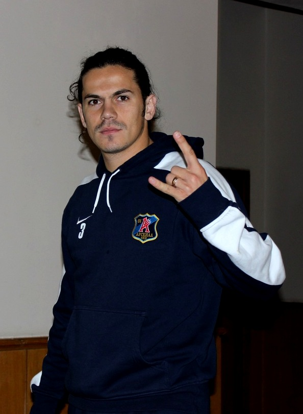 George Mihai Florescu